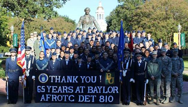 Baylor University's Air Force ROTC program celebrates 65 years.